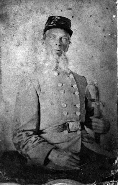 Brigadier general Martin E. Green of the Missouri State Guard, from Wilson's Creek National Battlefield